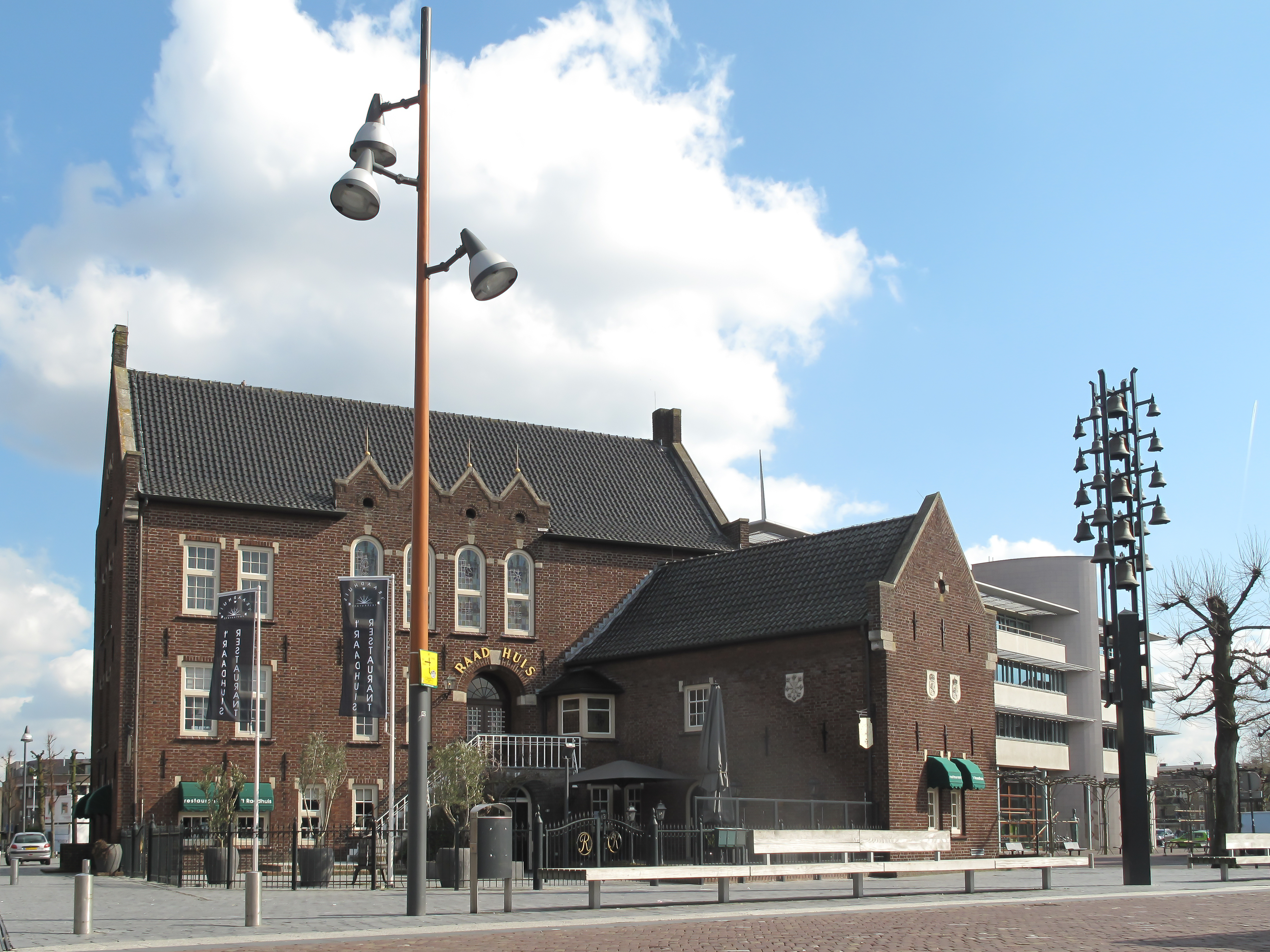 Uden, townhall